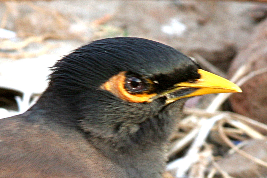 Closeup of head of Common Myna (Acridotheres tristis) illustrating the origin of its name in Sanskrit peetanetra or 'one with yellow eyes'.